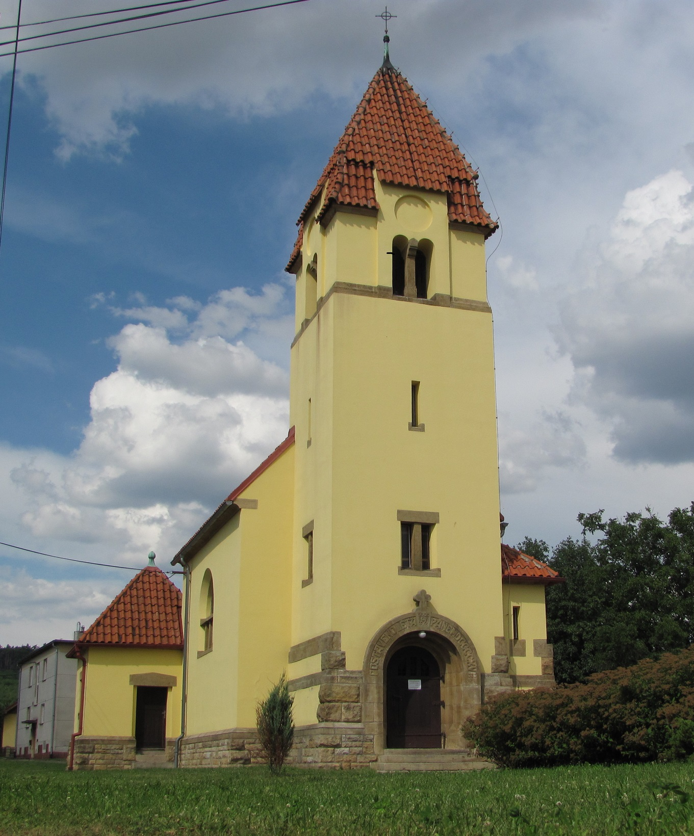 Holy Trinity Chapel in Ostroměř, Jičín District, the Czech Republic.